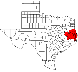 Map of Texas highlighting counties served by the Deep East Texas Council of Governments; created by User:Acntx.